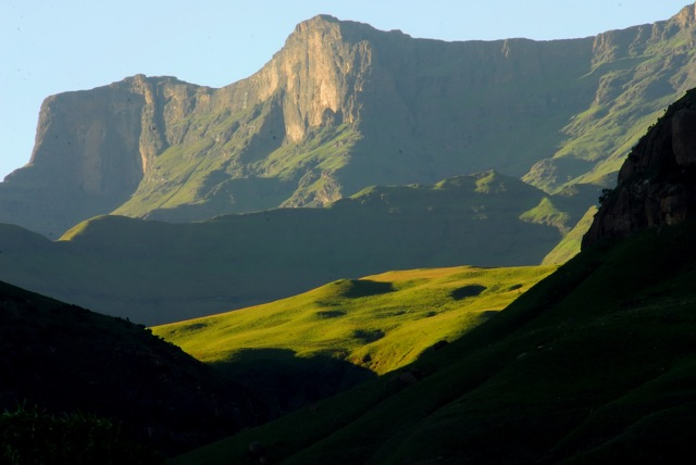 Little Saddle in the Ukhahlamba Drakensburg, South Africa.